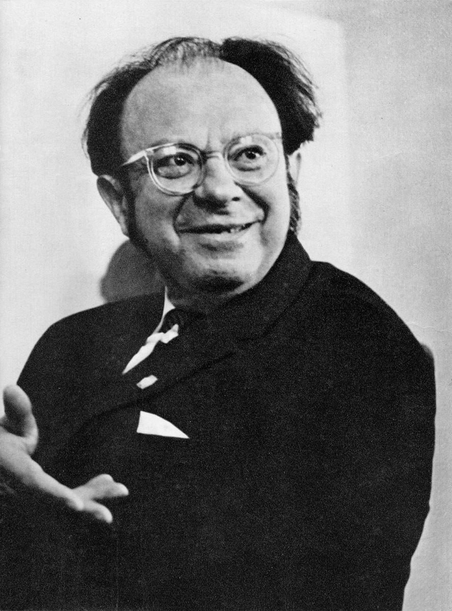 Hermann Buddensieg, German writer and translator